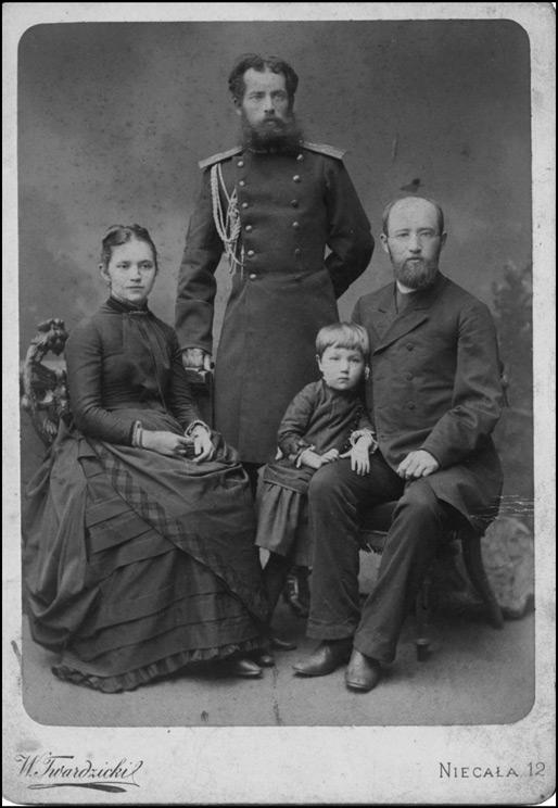 Nikolai Kulchitsky (1856–1925) (right) with wife Evgeniya Vasil’evna (1862–1932) (left), brother Pyotr (1853–1921) (centre) and daughter Ksenya (1883–1946) (centre